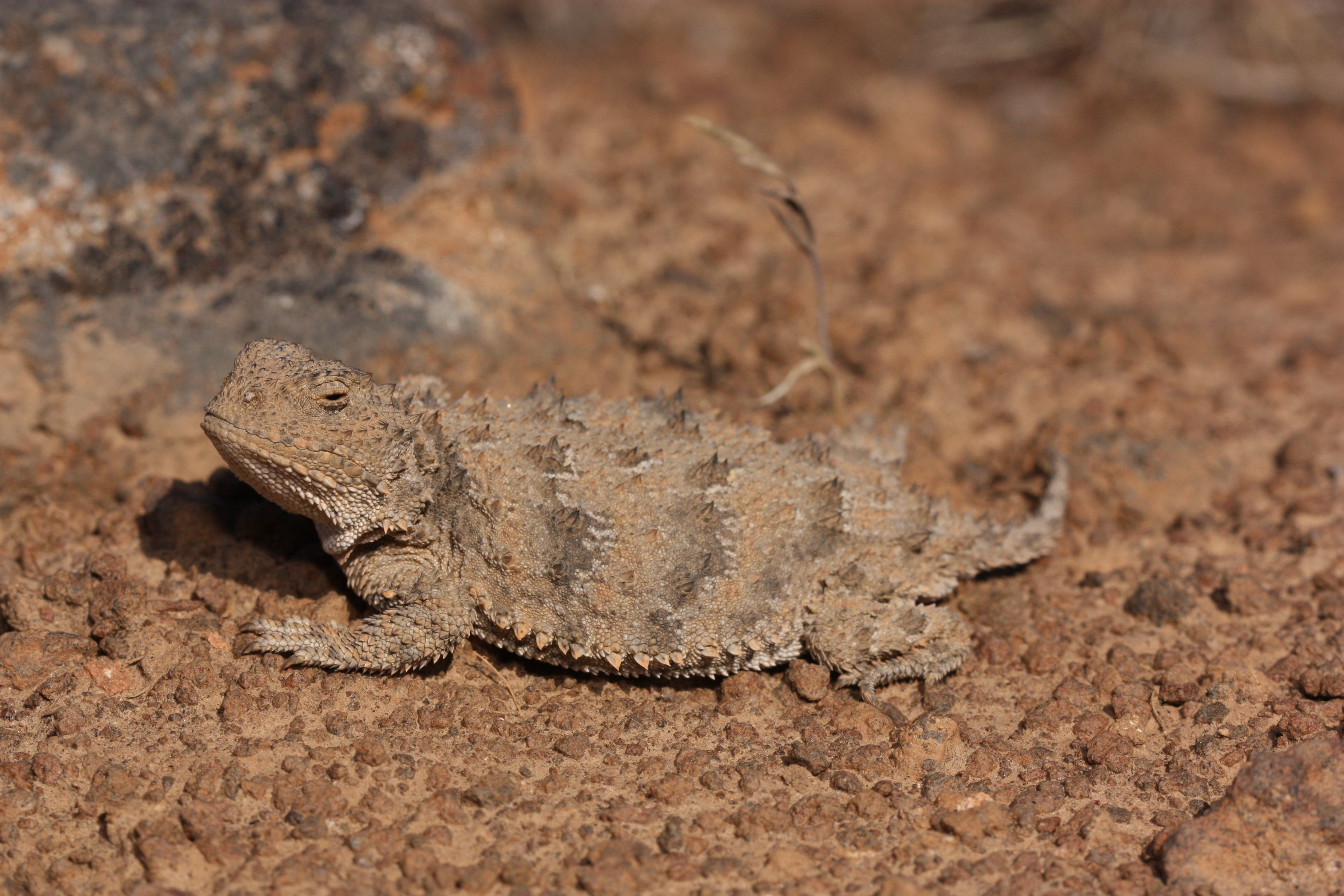 Pygmy Short-horned Lizard Viewpoint location: Unnamed and unimproved road, Whiskey Dick Unit, L.T. Murray Wildlife Area Viewpoint elevation: 686 meter (2249 ft) Location source: Garmin GPSmap 60CSx Location Datum: WGS84